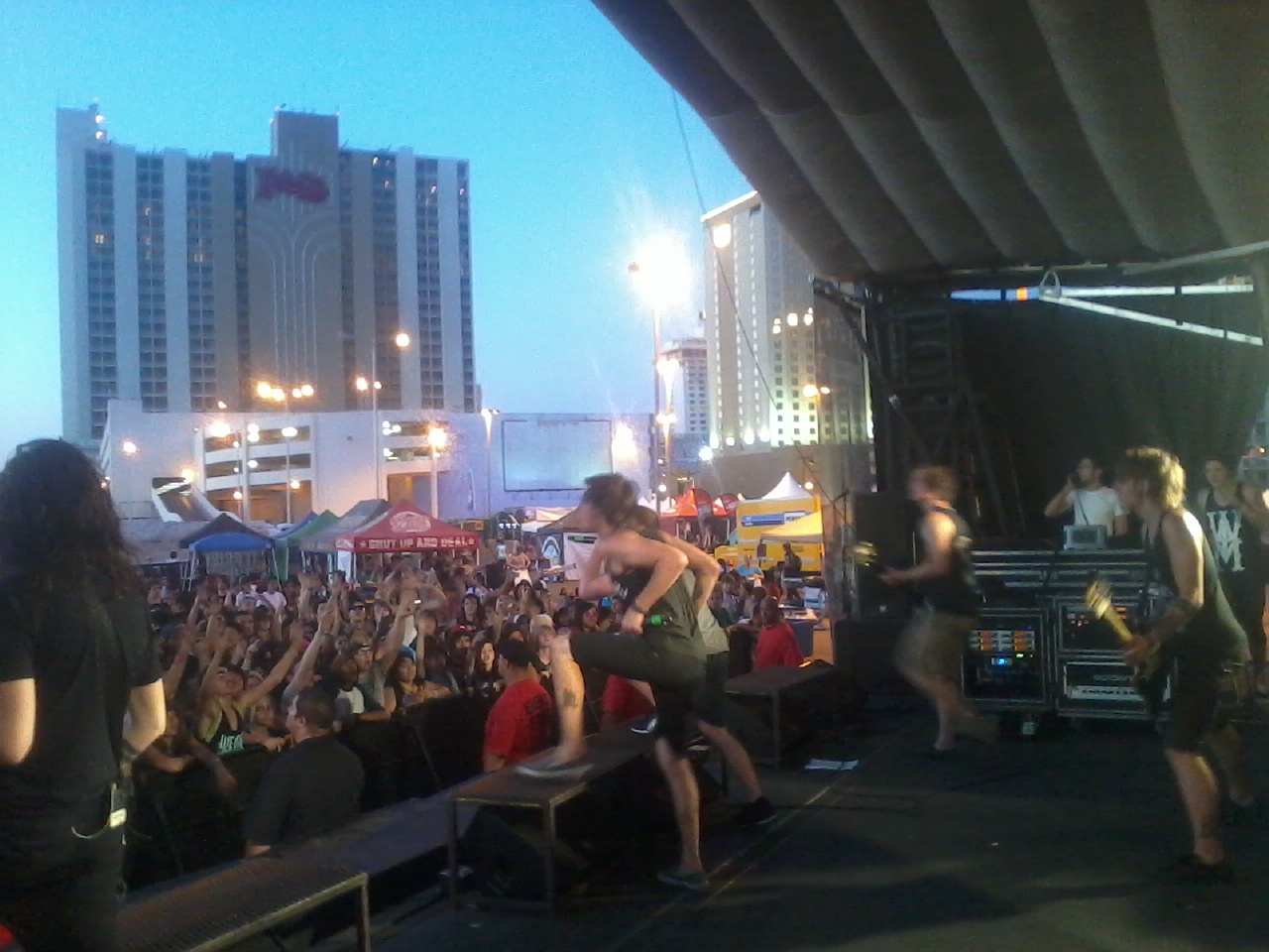 We Came as Romans performing in Las Vegas on 2011's Warped Tour.